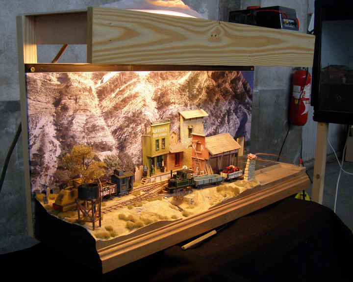 The Berling River’s ; Far-West inspired layout by François Fontana ; HOe/009 scale